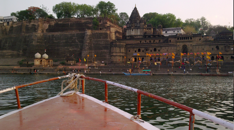 Banks of River Narmada